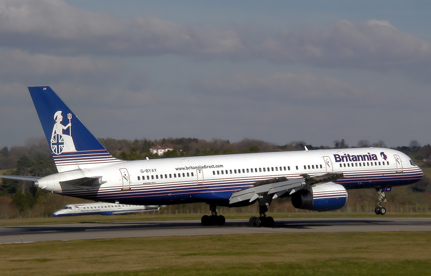 Britannia Airways Boeing 757-200 (G-BYAY) lands at Bristol International Airport, England. A British Airways ERJ 145 is in the background. Taken by Adrian Pingstone in 2004 and released to the public domain.